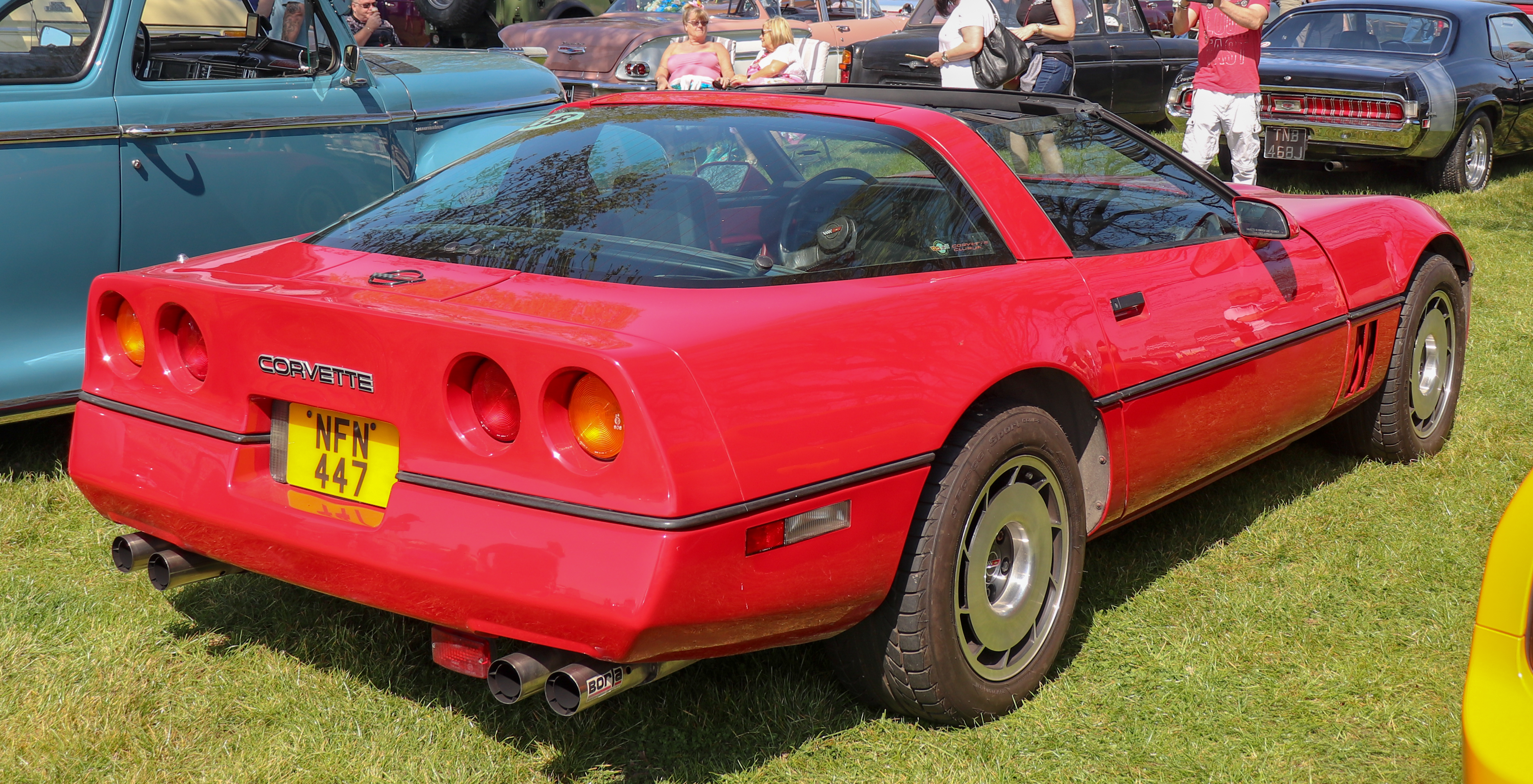 1984 Chevrolet Corvette C4 Coupe 5.8 Rear Taken at the Midlands Auto Fest 2019 NAEC Stoneleigh, Stoneleigh, Coventry